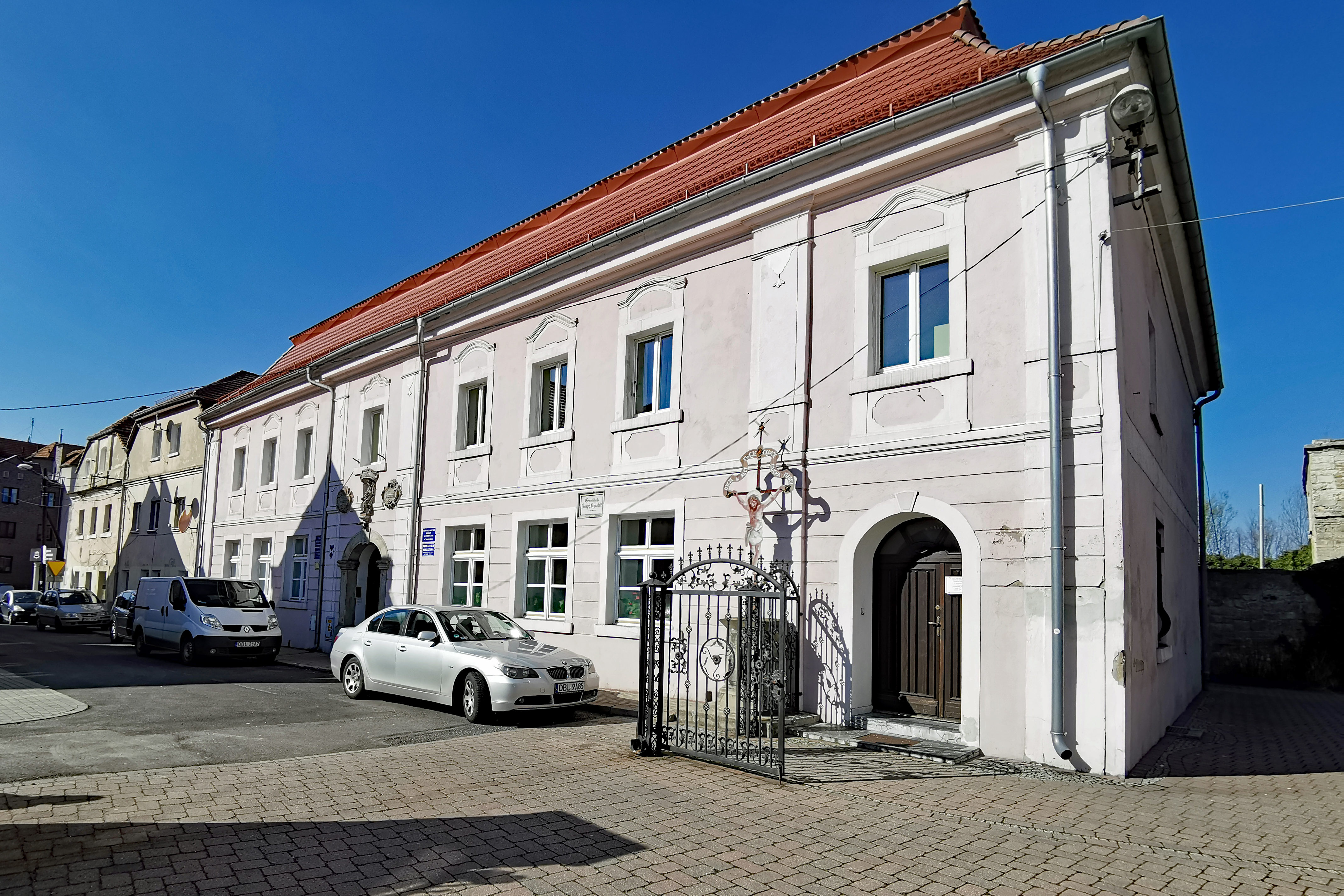 Nowogrodziec (Lower Silesian Voivodeship, Poland) birthplace of Joseph Ignatz Schnabel